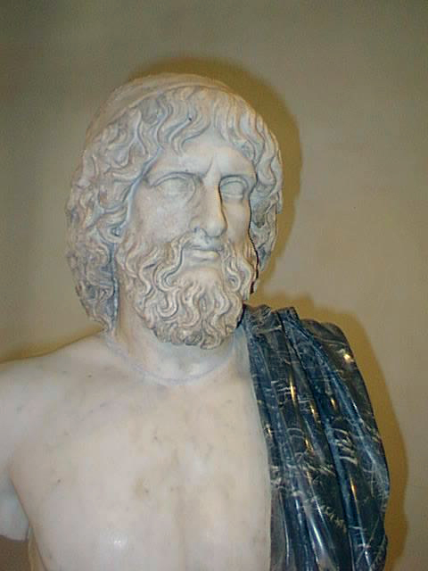 Roman copy after a Greek original from the 5th century BCE; the black mantle is a modern addition.